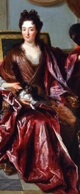 The Marquise of Noailles in 1698. (born "Marguerite Thérèse Rouillé"). She was later the Duchess of Richelieu by marriage.